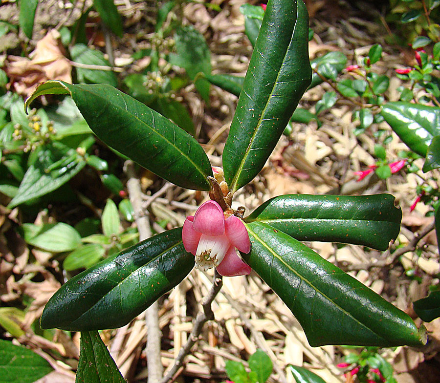 Native to Chiapis, Mexico and Guatemala. UC Berkeley Botanical Gardens. In context at